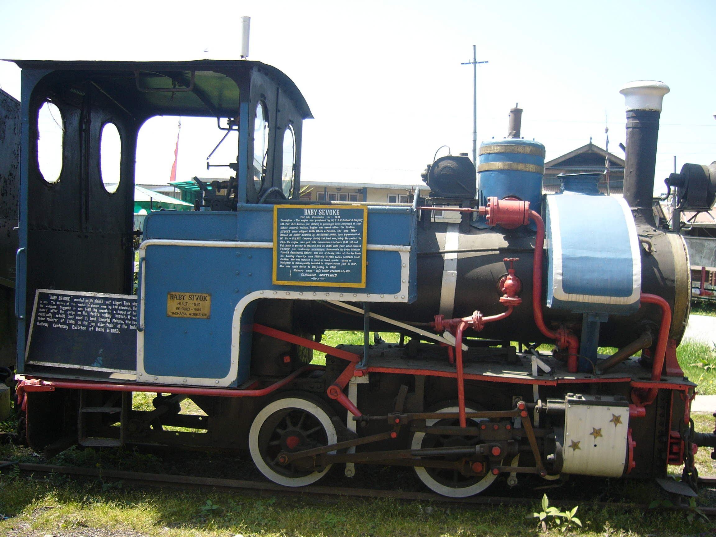 Toy Train Darjeeling West Bengal India. DHR class A